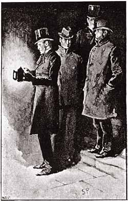 Illustration of the Sherlock Holmes short story The Red-Headed League, which appeared in The Strand Magazine in August, 1891. Original caption was "MR. MERRYWEATHER STOPPED TO LIGHT A LANTERN."